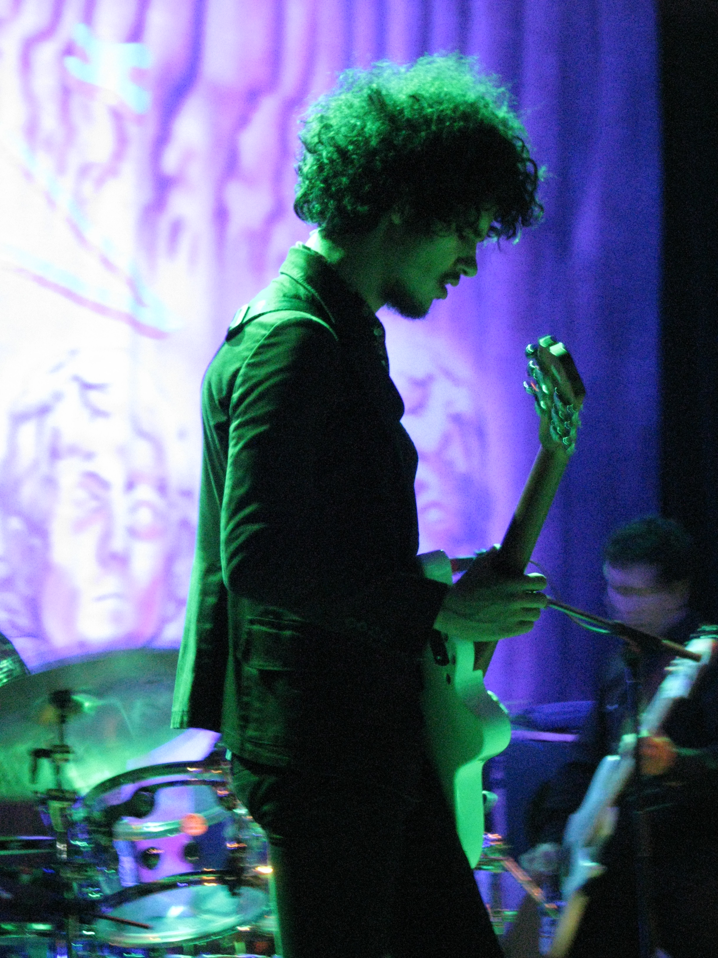 Omar Rodríguez-López, lead guitarist for the Mars Volta, playing at the Roy Wilkins Auditorium in St. Paul, Minnesota.